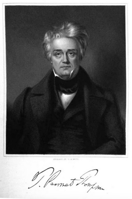 Portrait of Thomas Perronet Thompson with signature